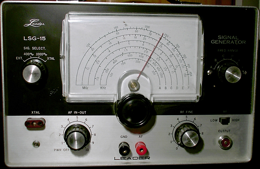 A Leader Instruments LSG-15 signal generator. Picture taken and released into the public domain by User:Kallemax. 23:10, 18 February 2006 Kallemax 846x552 (363095 bytes) (A Leader Instruments LSG-15 signal generator . Picture taken and released into the public domain by User:Kallemax . PD-user|Kallemax )